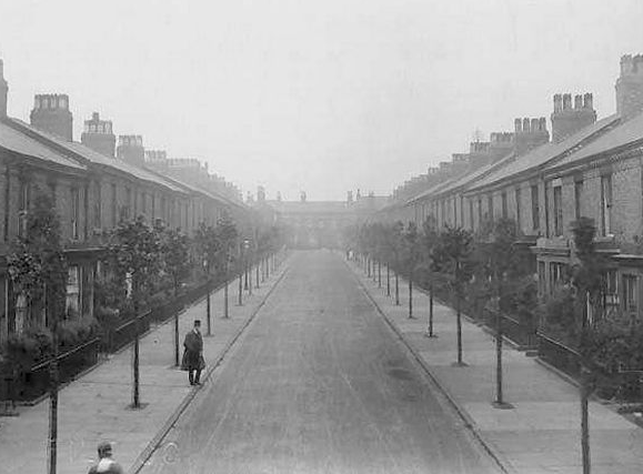 Voelas Street, Liverpool c1911 (Source: Liverpool Record Office)